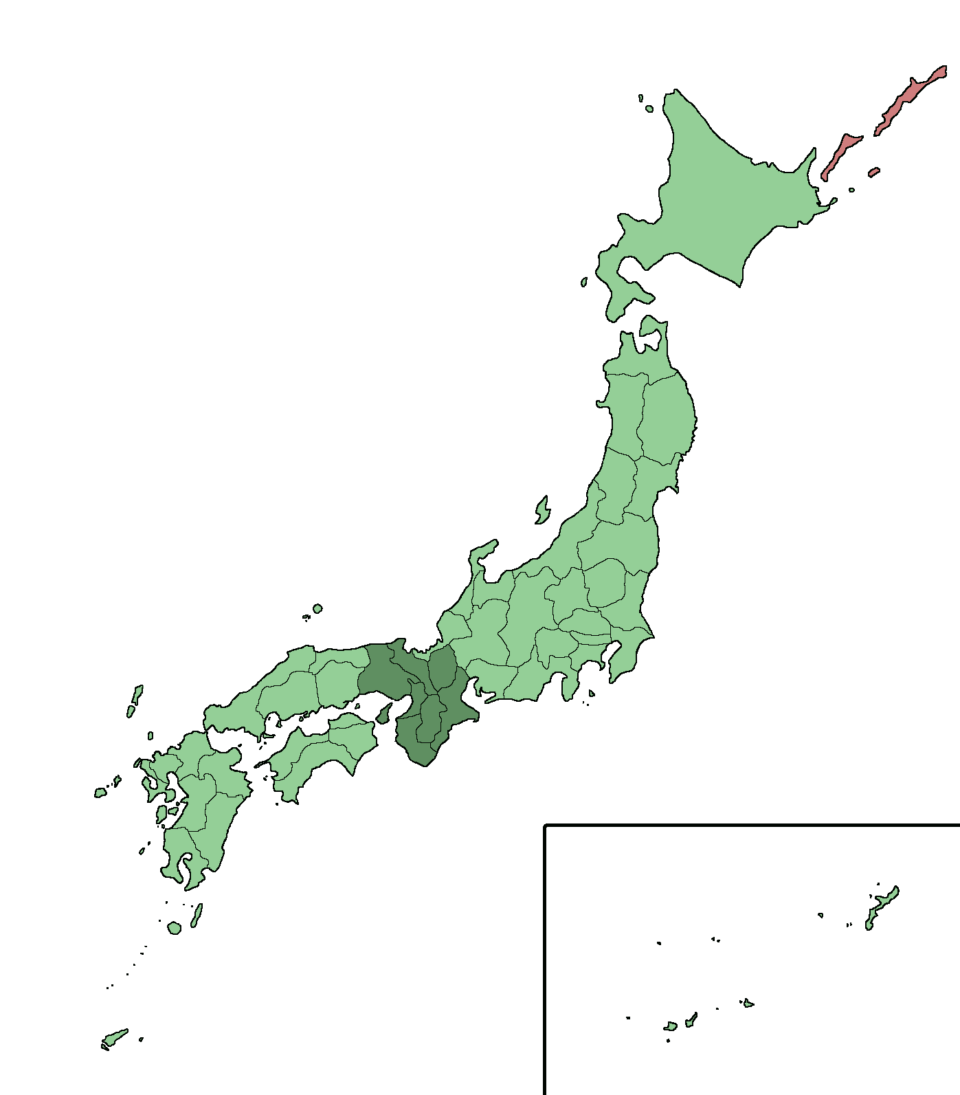 Large size map of Japan with Kinki region highlighted, self made but originally based on a japanese mapbook.